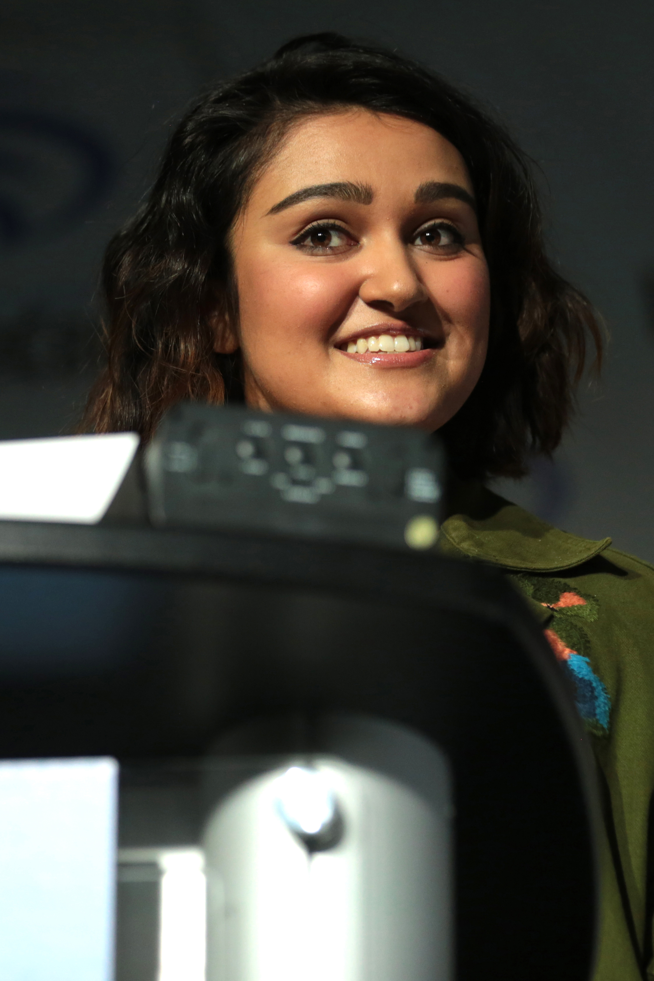 Ariela Barer speaking at the 2018 WonderCon in Anaheim, California.